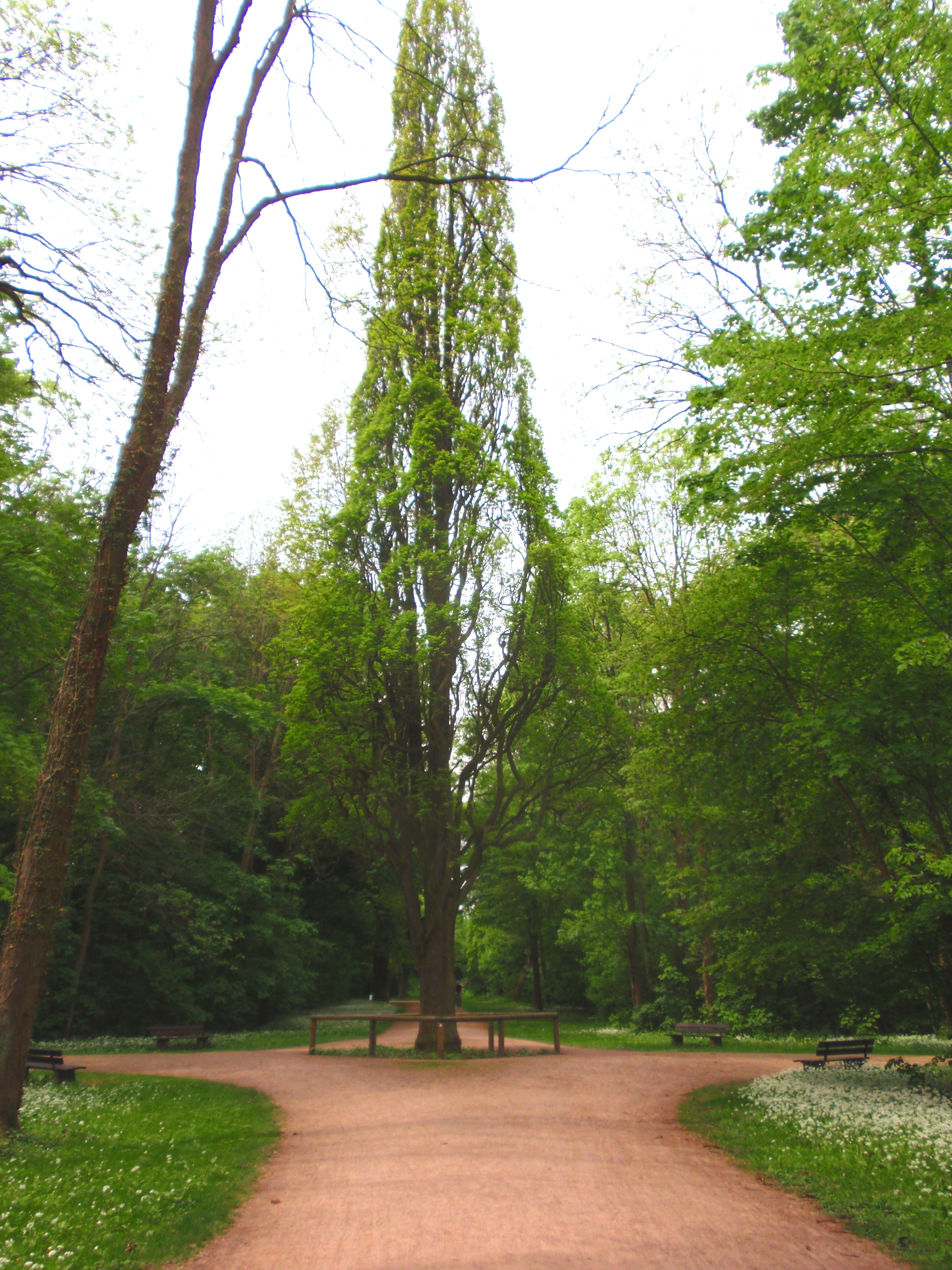 View of the Fasanerie ("pheasant park"), a landscape garden in Groß-Gerau, Hesse, Germany.